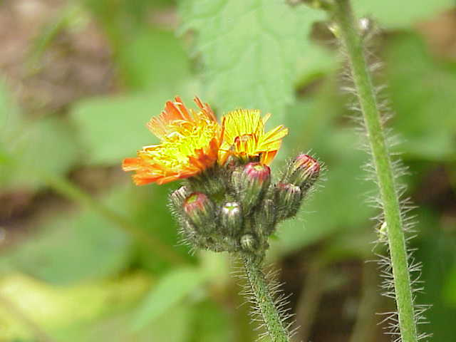 Species Hieracium aurantiacum Familia Asteraceae Image no. 1 Permission granted to use under GFDL by Kurt Stueber